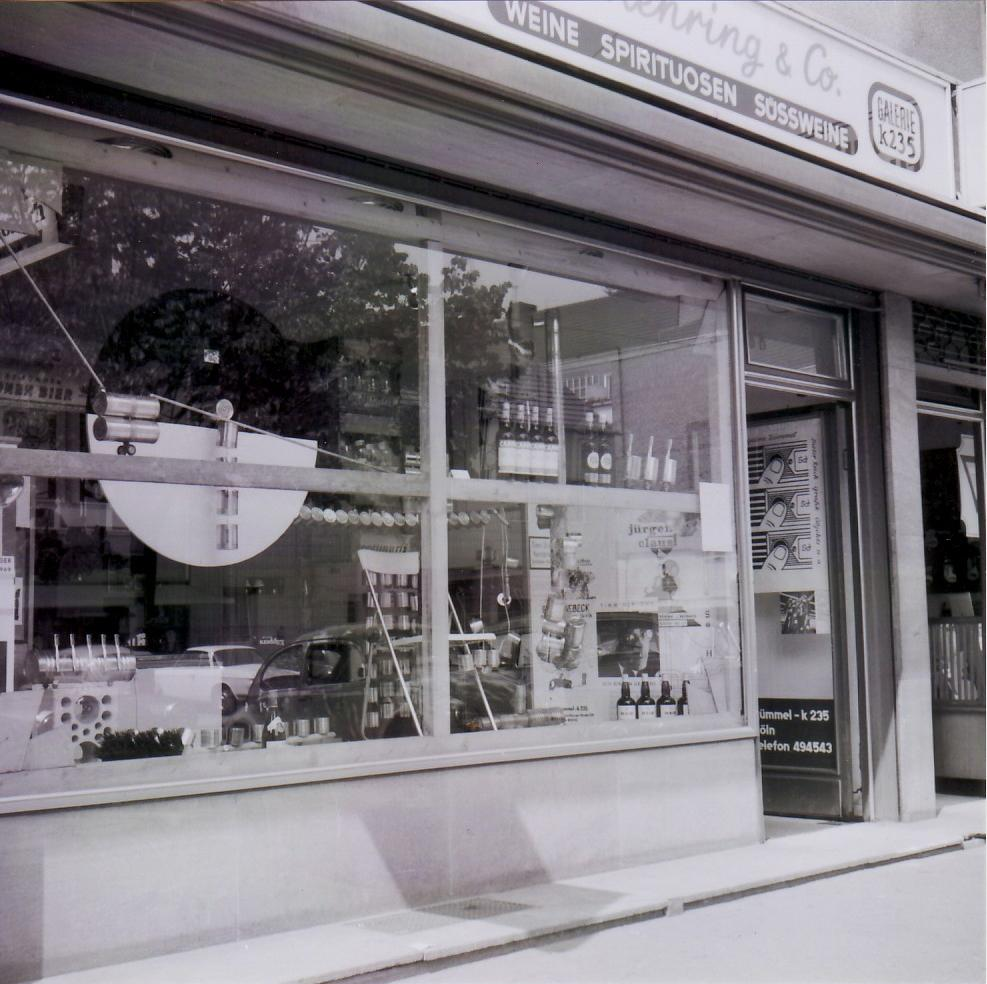 Look into the shop window of the galery K235 of Ingo Kümmel in Braunsfeld, Cologne, during the exhibition "Objekte, Grafik, Spielmultiples" by Dieter Reick in August 1969.